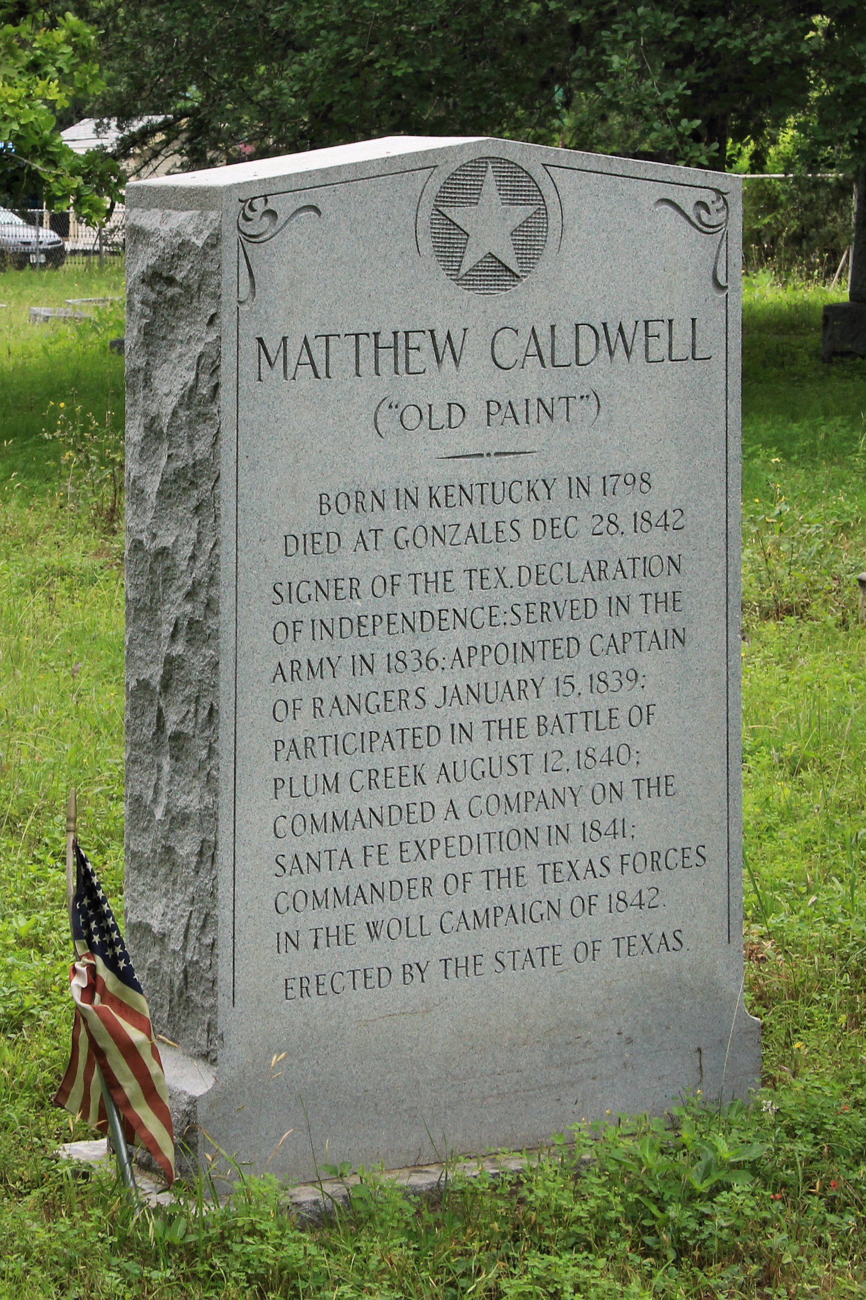 Monument erected by the State of Texas at the gravesite of Matthew Caldwell in Gonzales Memorial Cemetery, Gonzales, Texas, United States.